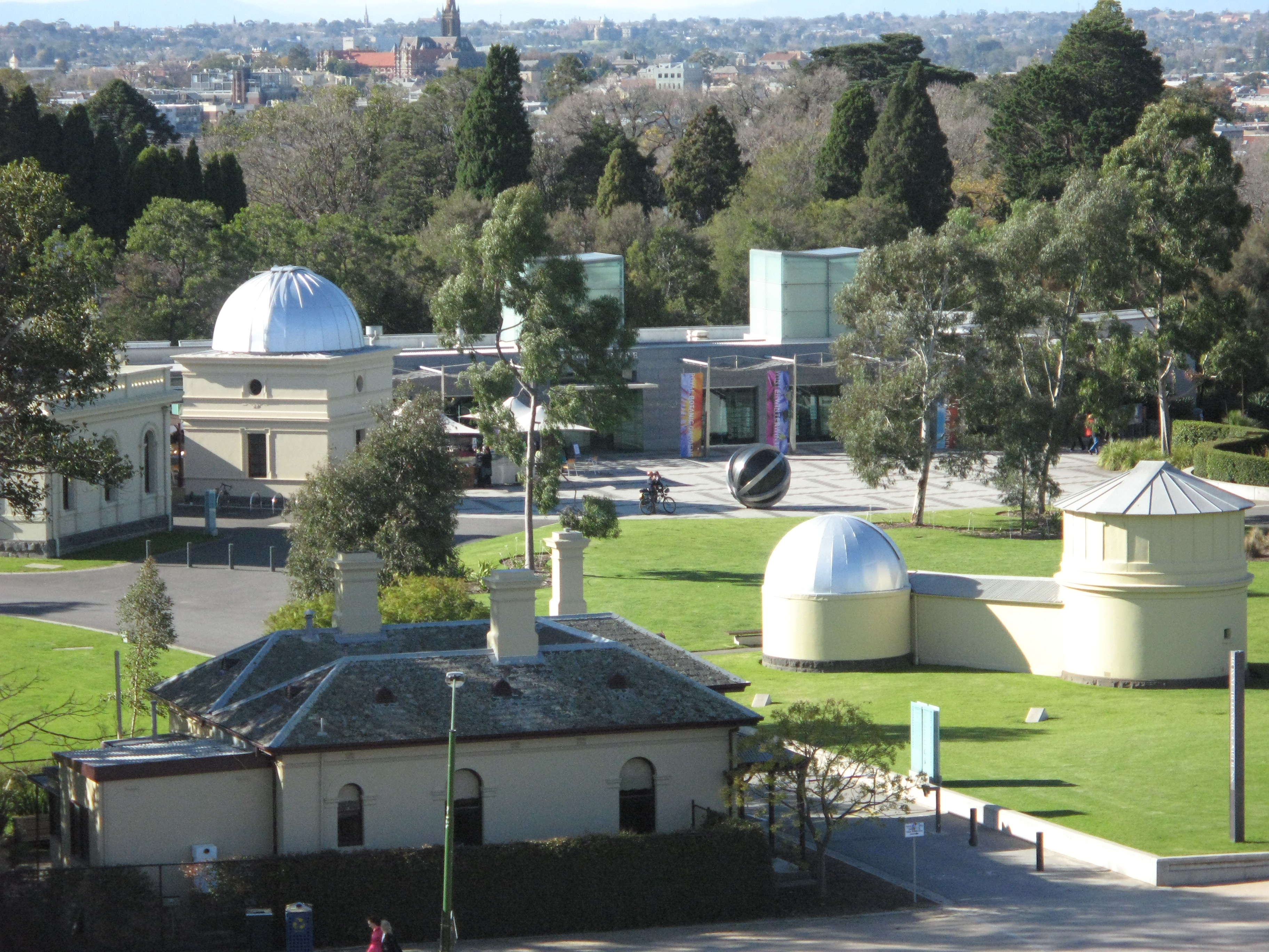 The Melbourne Observatory from the Shrine of Remembrance. Photo taken by Nick carson in June 2009.